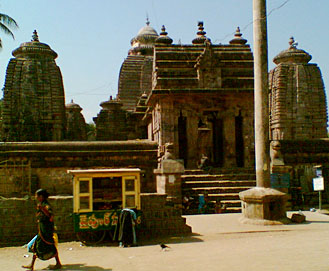 this is a great place to visit.